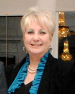 Anna Crighton, at the official launch of Historic Places Aotearoa, at Government House, Wellington, on 14 August 2012.